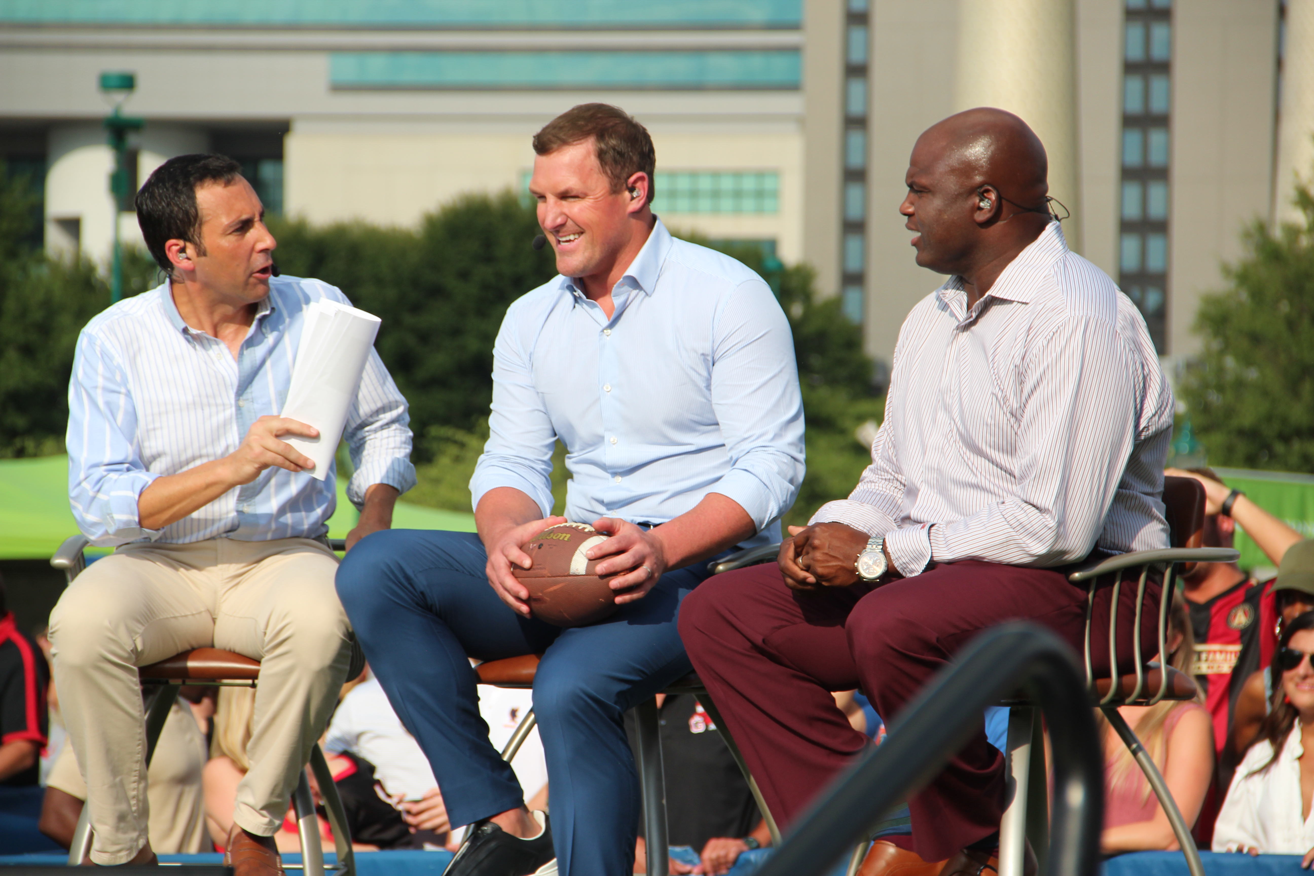 Joe Tessitore, Jason Witten, Booger McFarland at the 2018 SEC Football Kickoff Summerfest